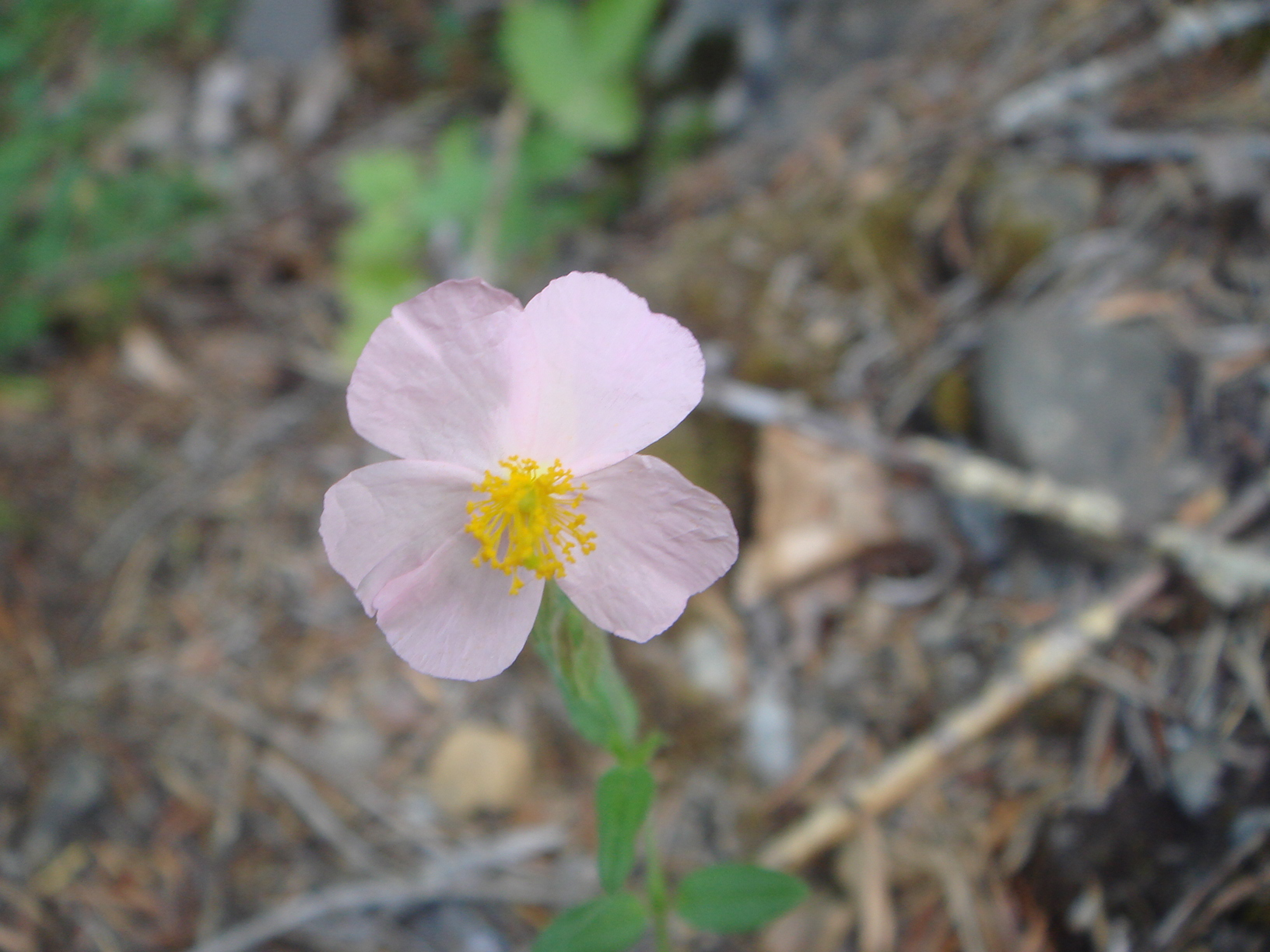 Common Rockrose (Helianthemum nummularium subsp. pyrenaicum). Spain, province of Huesca.